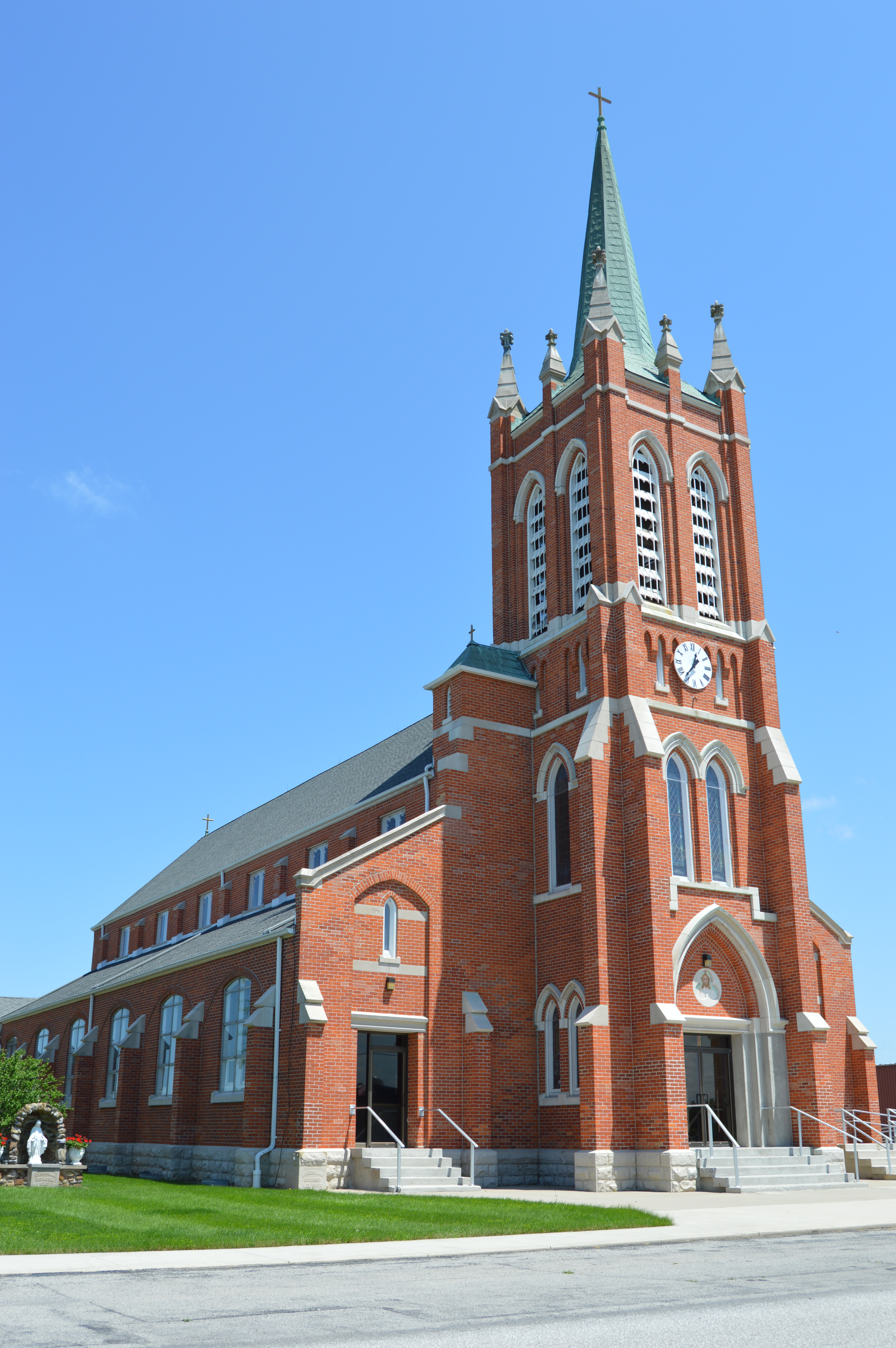 Western side and front of St. Nicholas' Catholic Church, located at 200 Main Cross Street in Miller City, Ohio, United States.